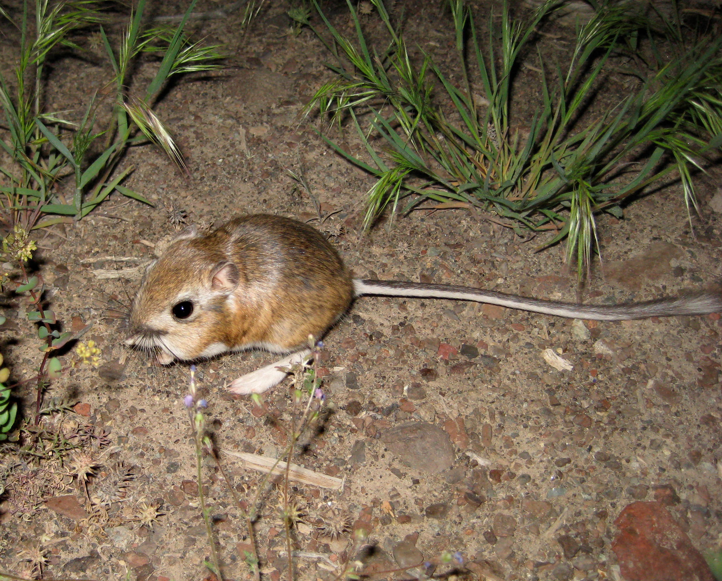 Pale Kangaroo Mouse (Microdipodops pallidus), Nevada This identification is incorrect. This is a kangaroo rat, probably Merriam's Kangaroo Rat